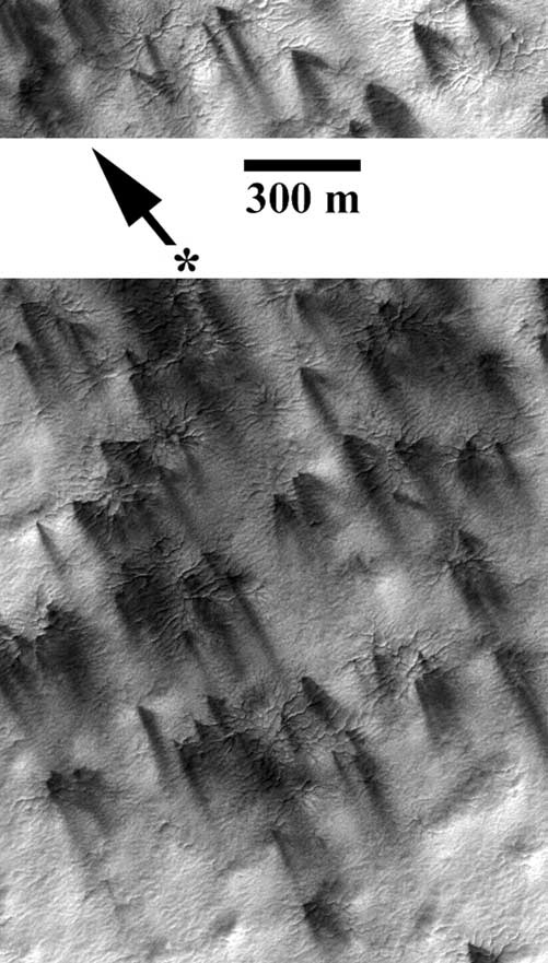 Mars Orbiter image showing dark fans apparently emanating from the center of Martian spiders features. The image is M07/03150, taken at Ls = 208deg. and from 85.4deg.S, 257.1deg.W. The illumination direction and scale are as shown. The original image had a resolution of 2.8 m pixel-1.